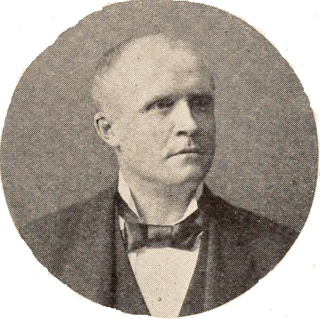 Portrait of New York state senator Edgar T. Brackett